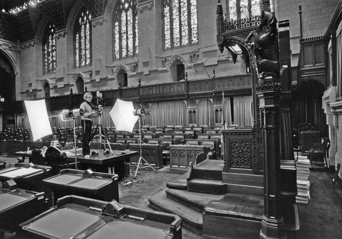 Hans-Ludwig Blohm on the speaker’s table in the Canadian House of Commons to take detailed large format photographs for Public Works Canada, prior to changes to the House for the accomodation of more members of parliament (MPs).